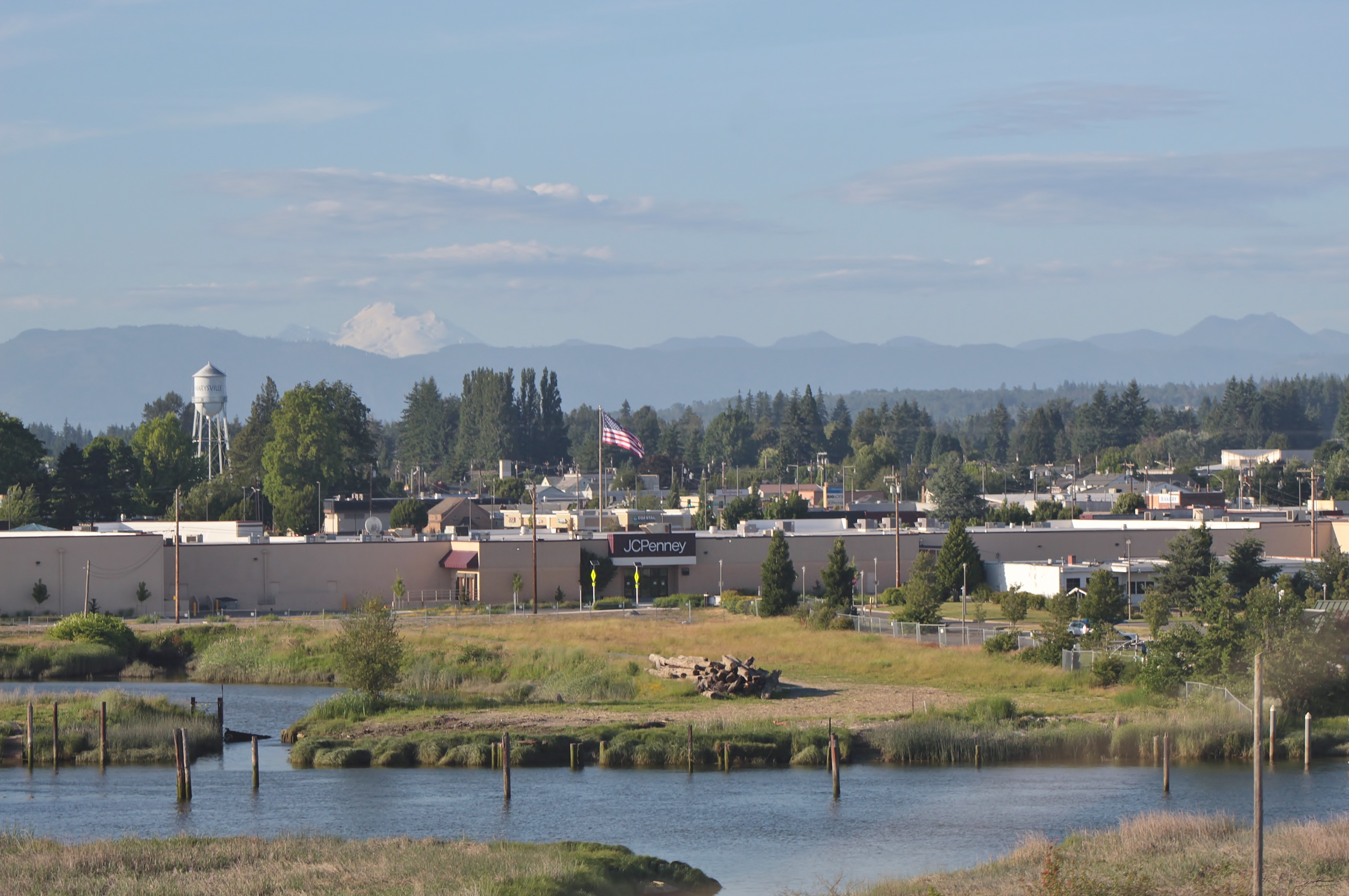 The skyline of downtown Marysville seen from a bus on Interstate 5 over the Ebey Slough. Mount Baker can be seen in the background.